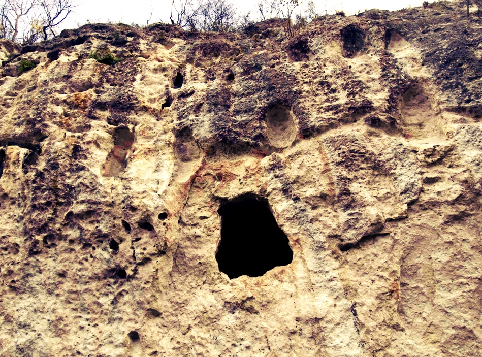 Pop Martin Skit 2